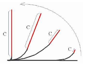 Compensation process in the bending mushroom stem (experimental data were collected on Coprynus). C - the compensating part. Created and uploaded by Audrius Meškauskas.